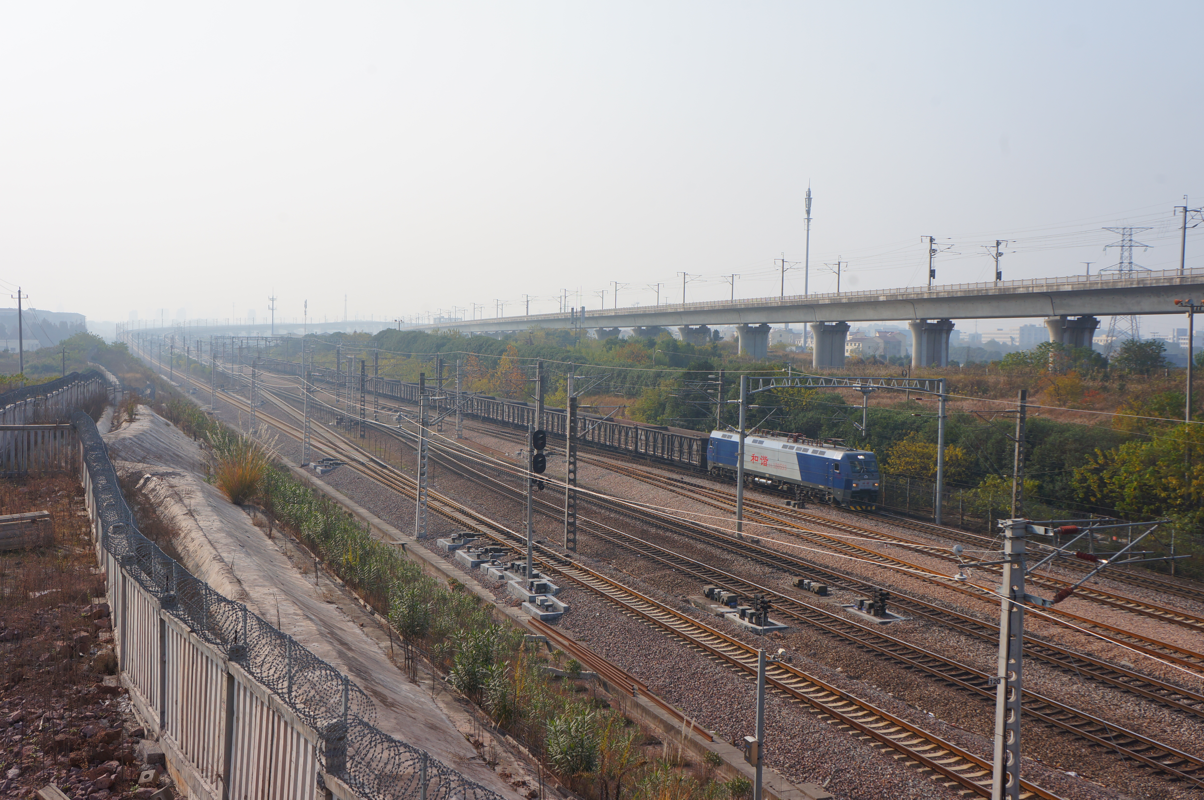 201612 HXD1B-0593 at Dongxiao Station